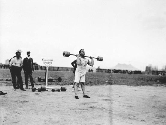 Greek weightlifter Perikles Kakousis at the 1904 Olympic Games. Chicago Daily News negatives collection, SDN-002637a. Courtesy of the Chicago Historical Society. Taken in 1904 (